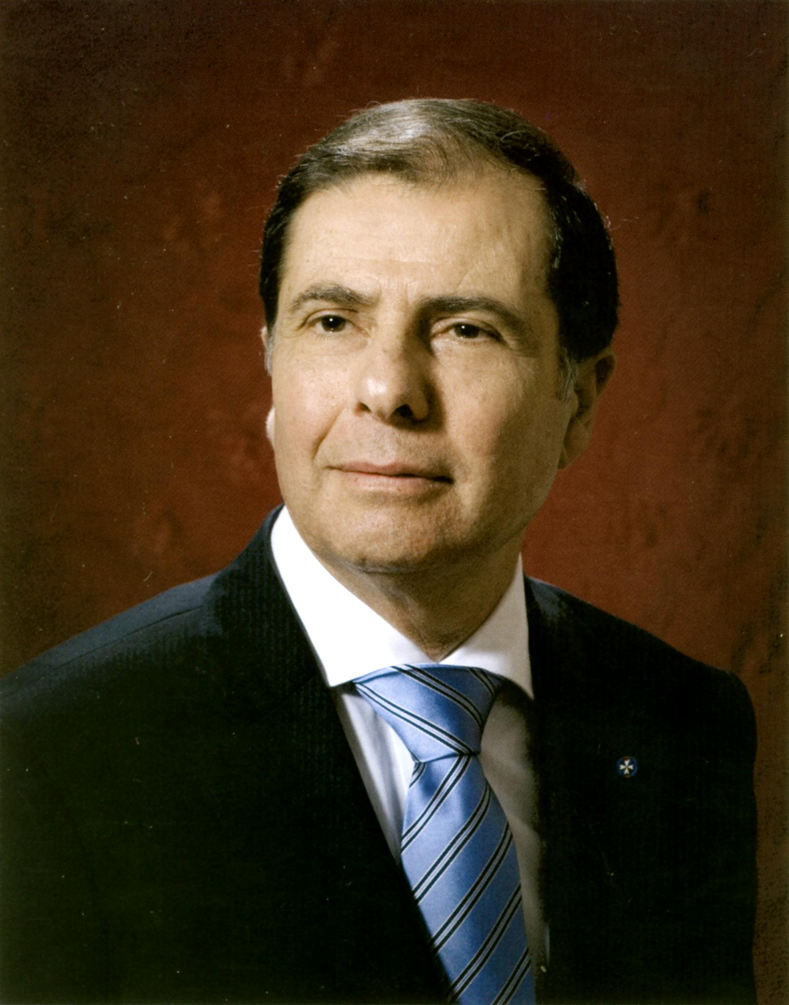 Image of Malta's President, Hon. George Abela